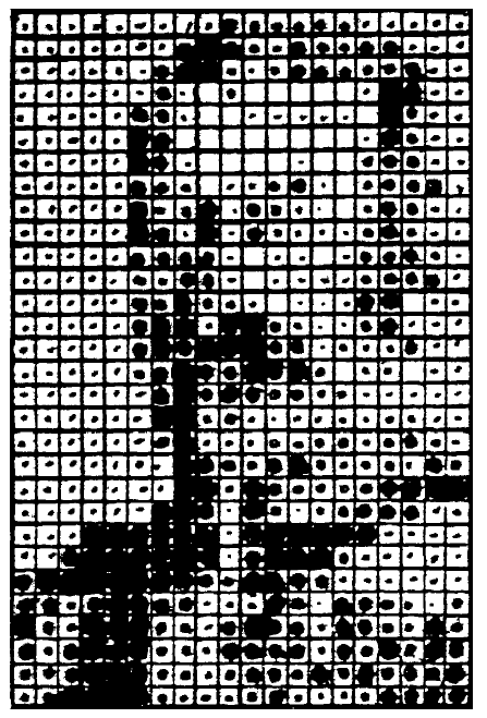 Giorgio V — First Broadcast Picture